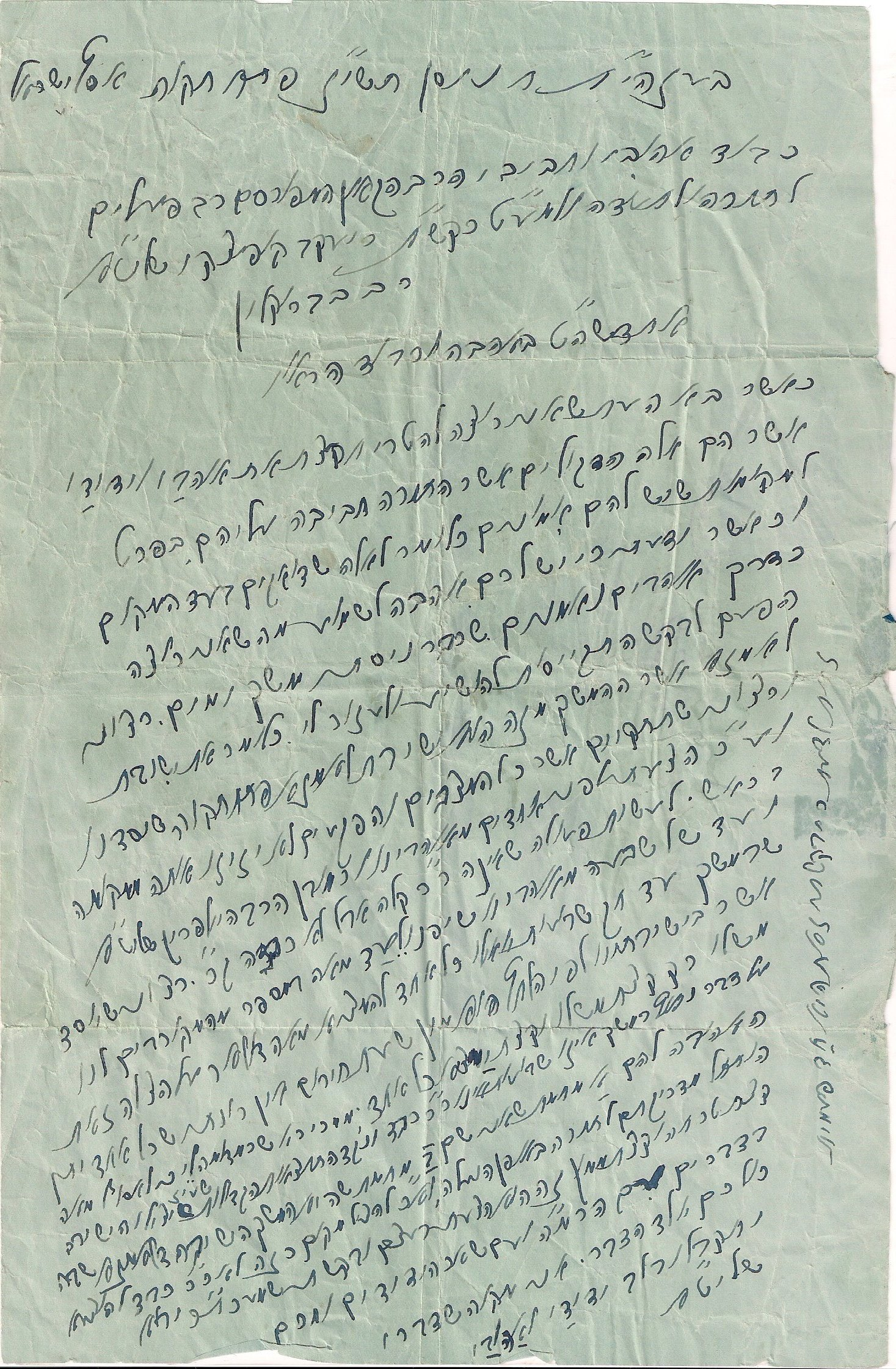 A letter written by Rabbi Gordon (95 Rothschild St., Petach Tikva, Israel) requesting funds for the Lomza Yeshiva from Rabbi Kupietzky (275 Kingston Ave., Brooklyn, N.Y.). Postmark date 1957.